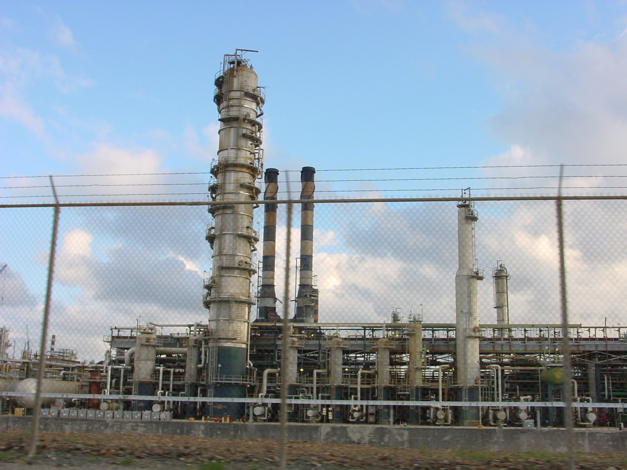 HOVENSA petroleum refinery, St. Croix, U.S. Virgin Islands